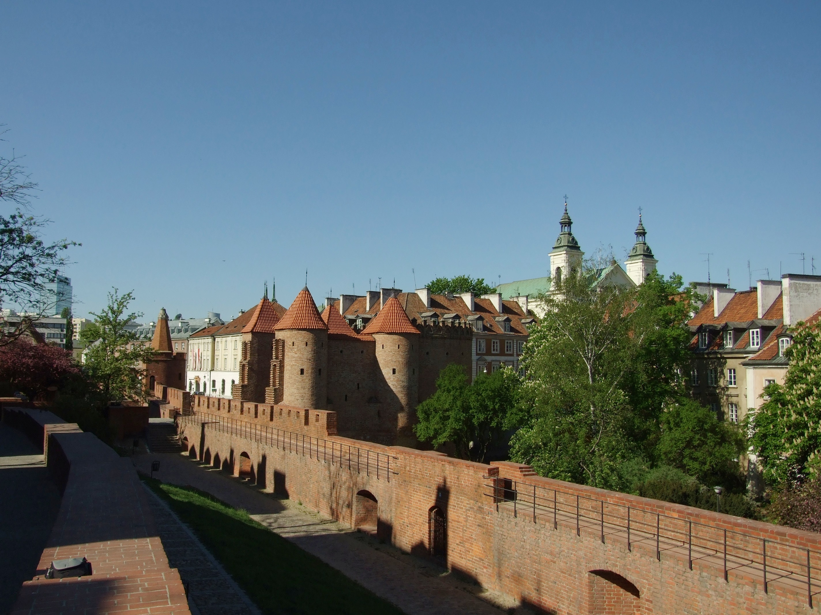 Warsaw historic fortifications, Mazowskie, PLhelp